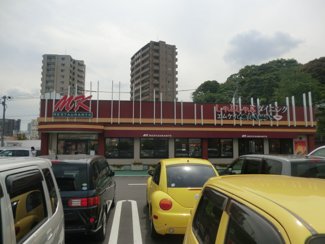 MK Restaurants (Shabu-Shabu Chain store)